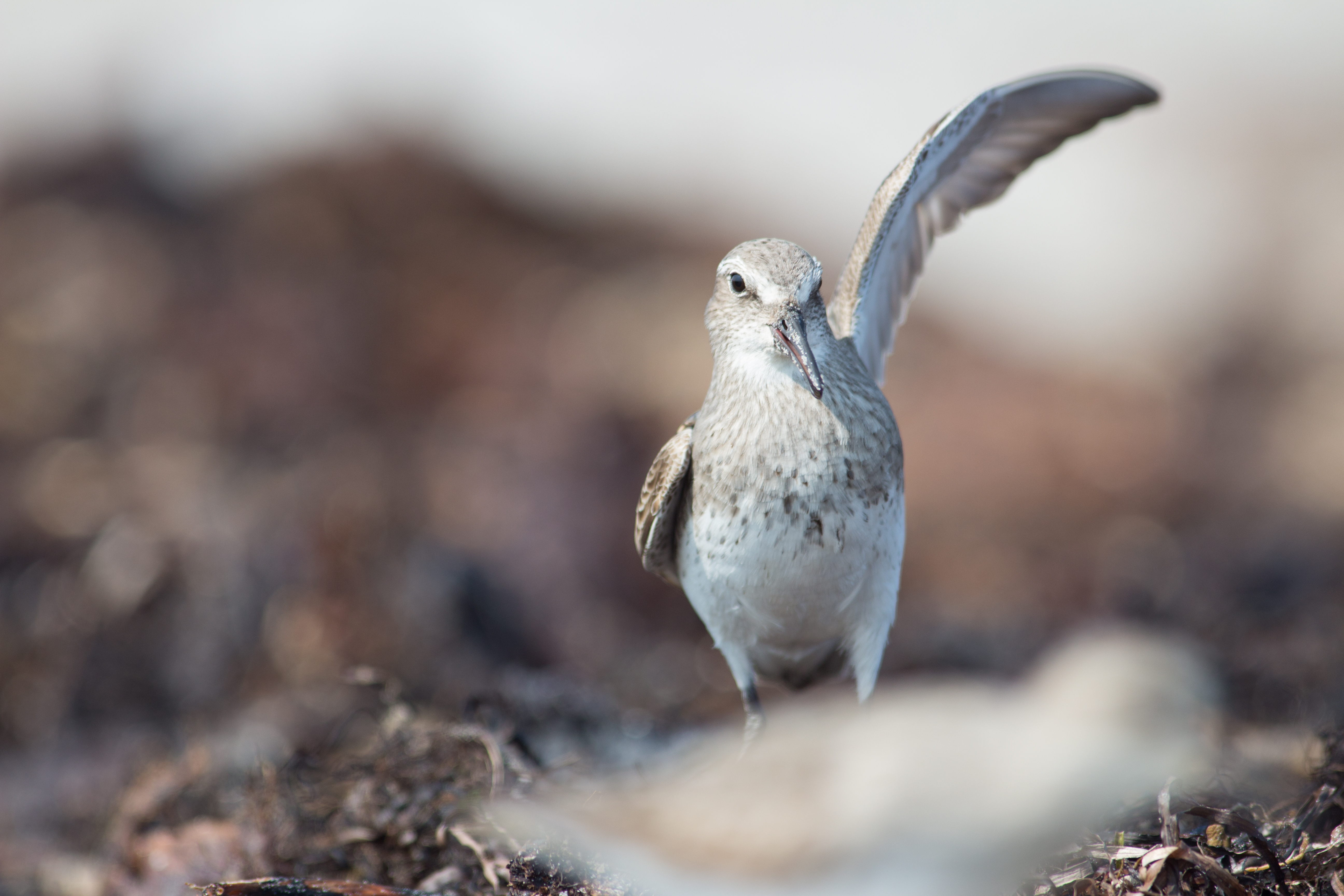 White-rumped Sandpiper Calidris fuscicollis, Deadman's Bay, Newfoundland, Canada